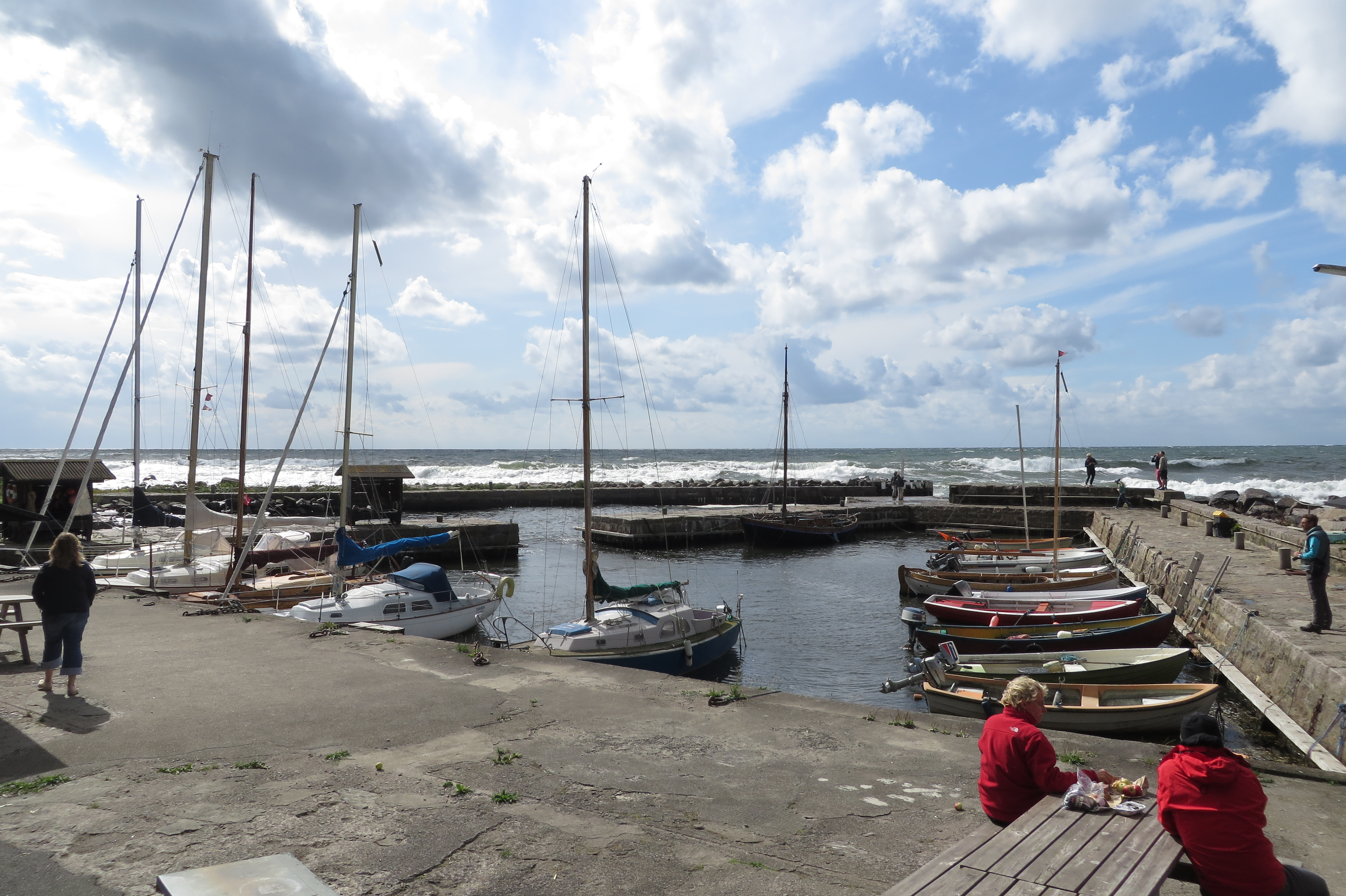 Helligpeder, Bornholm